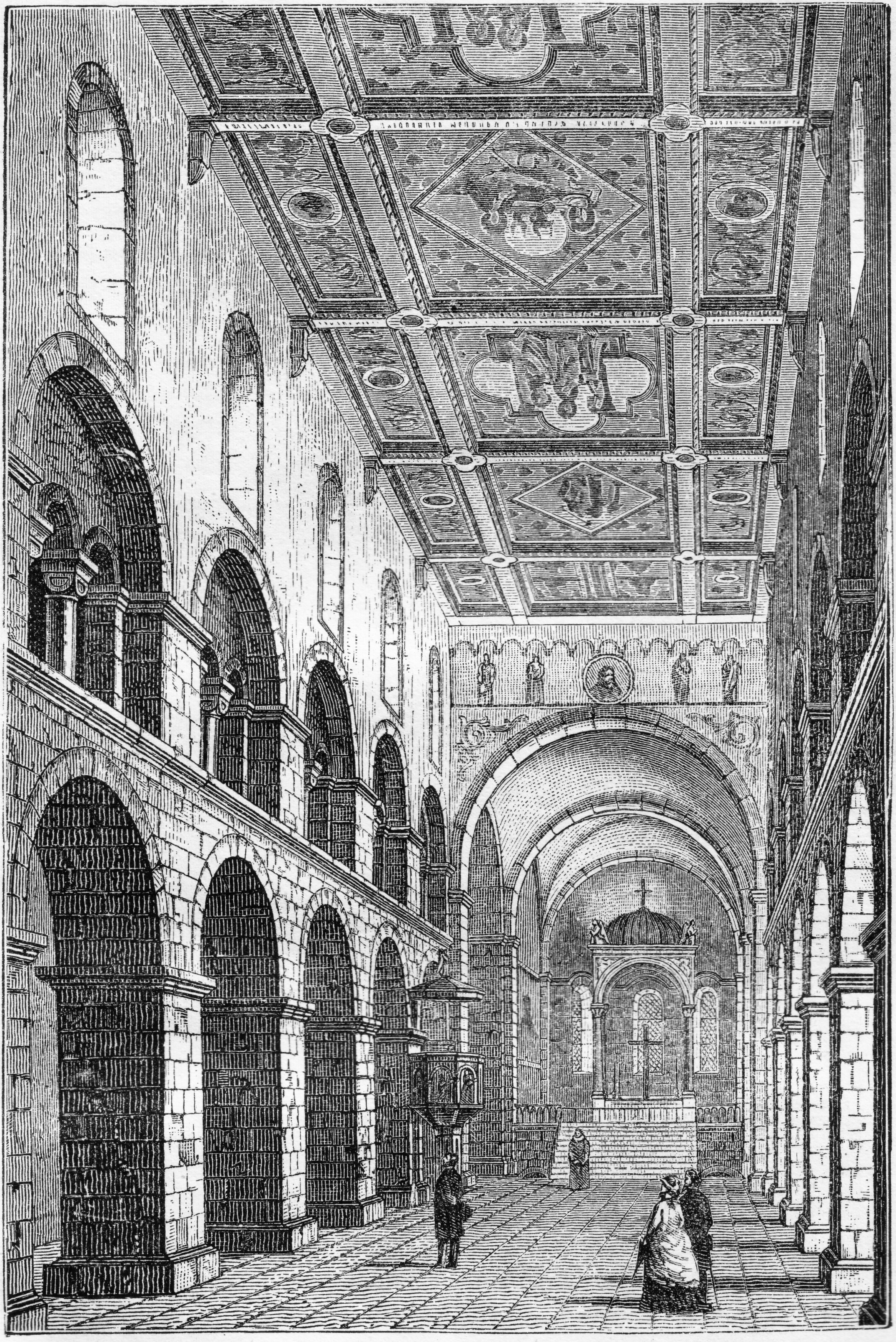 "Opfindelsernes Bog" (Book of inventions) 1877 by André Lütken, Ill. 296. Viborg domkirke.